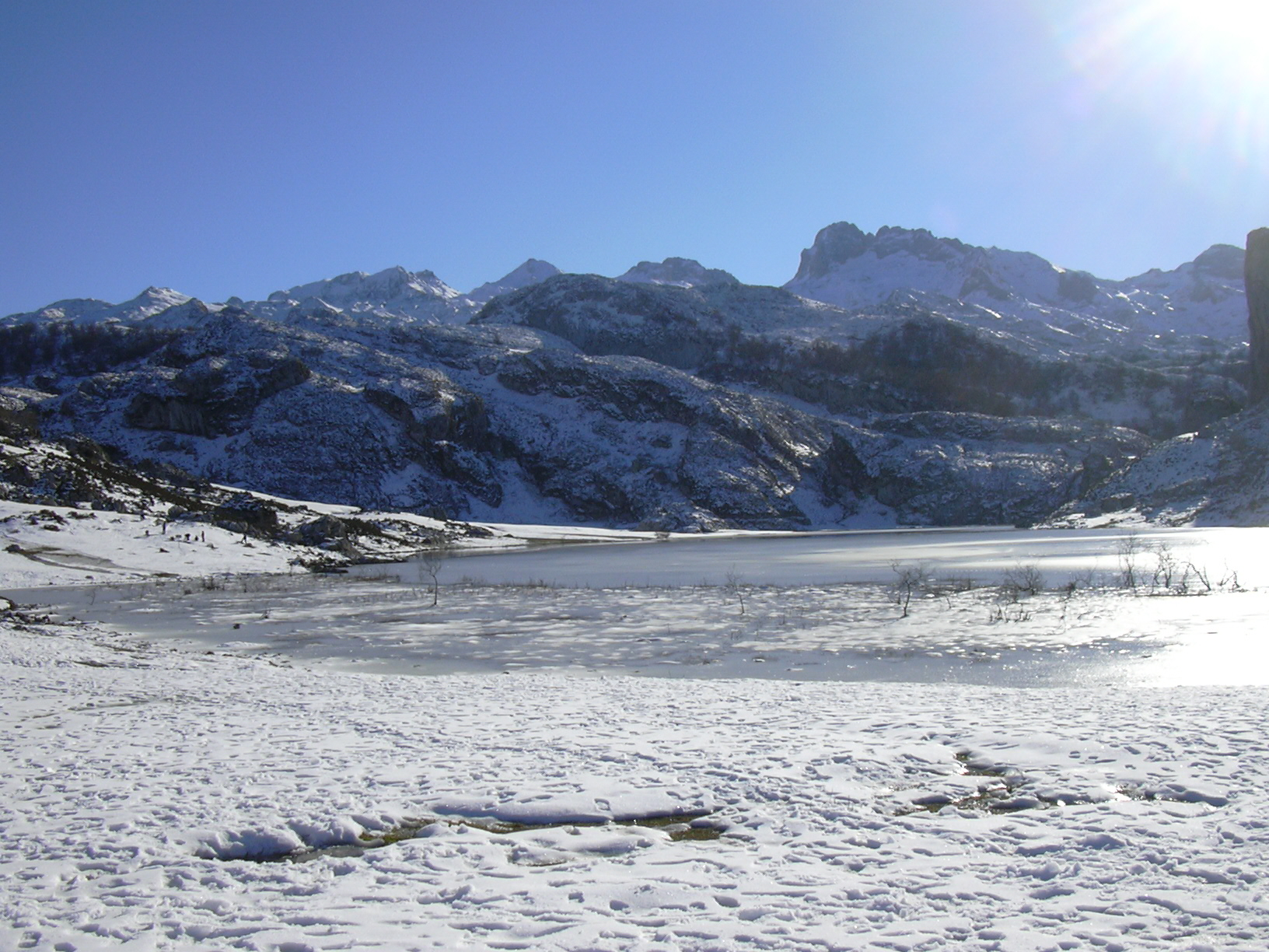 The Lake Ercina (with frozen surface) in Asturias, Spain